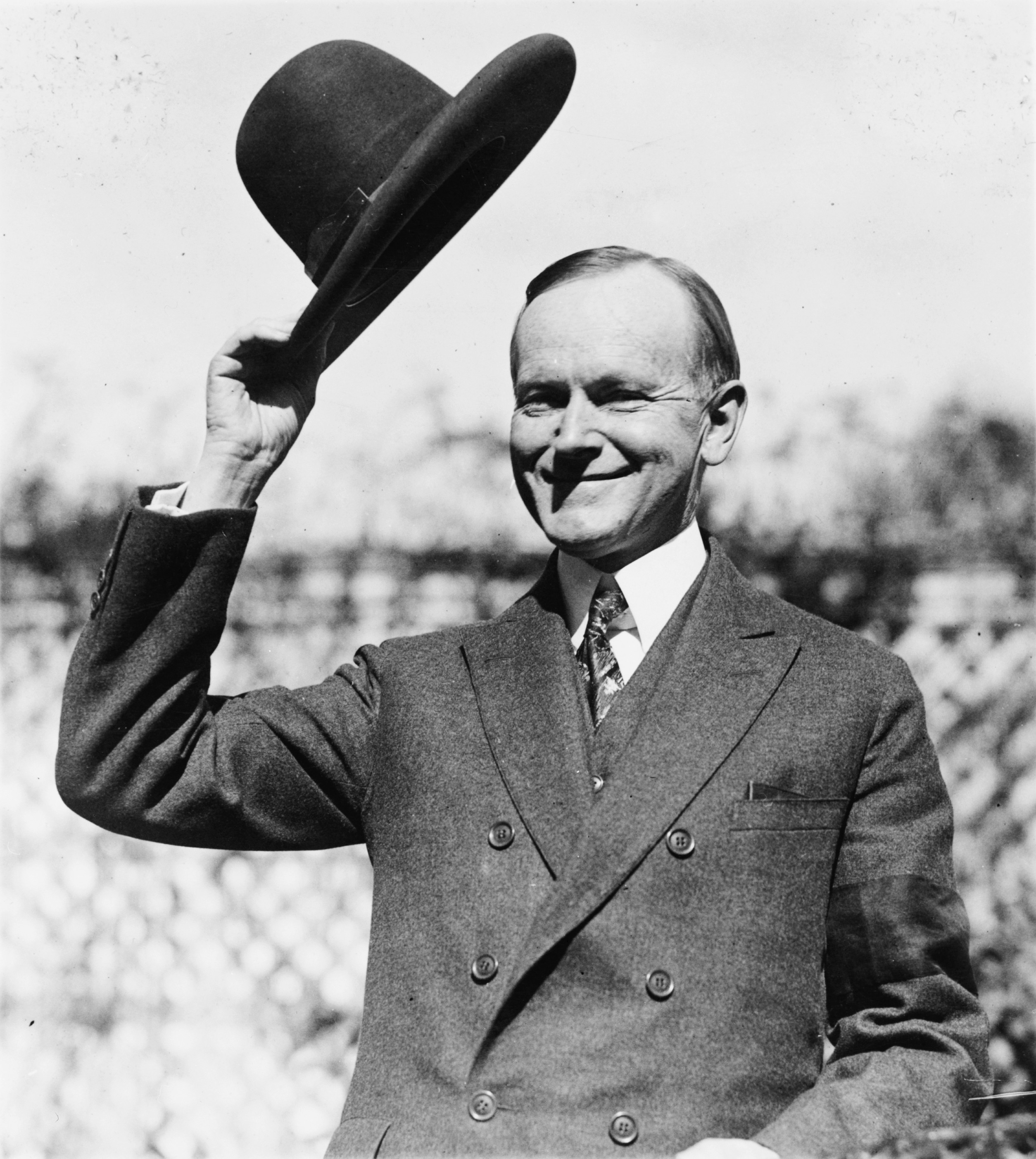 U.S. President Calvin Coolidge, half-length portrait, standing, facing left, tipping his hat. The hat was the special headpiece of the Smoki Indians of Prescott, Arizona.[1] It had a rim of brilliant red and a crown of bright blue. The Smoki Indians were a fictitious tribe created in imitation of the local Hopi Indians that performed at Prescott's annual rodeo. The president was inducted into the Smoki tribe on the grounds of the White House on October 22, 1924. On June 2, 1924, President Coolidge had signed a bill granting Indians full U.S. citizenship.